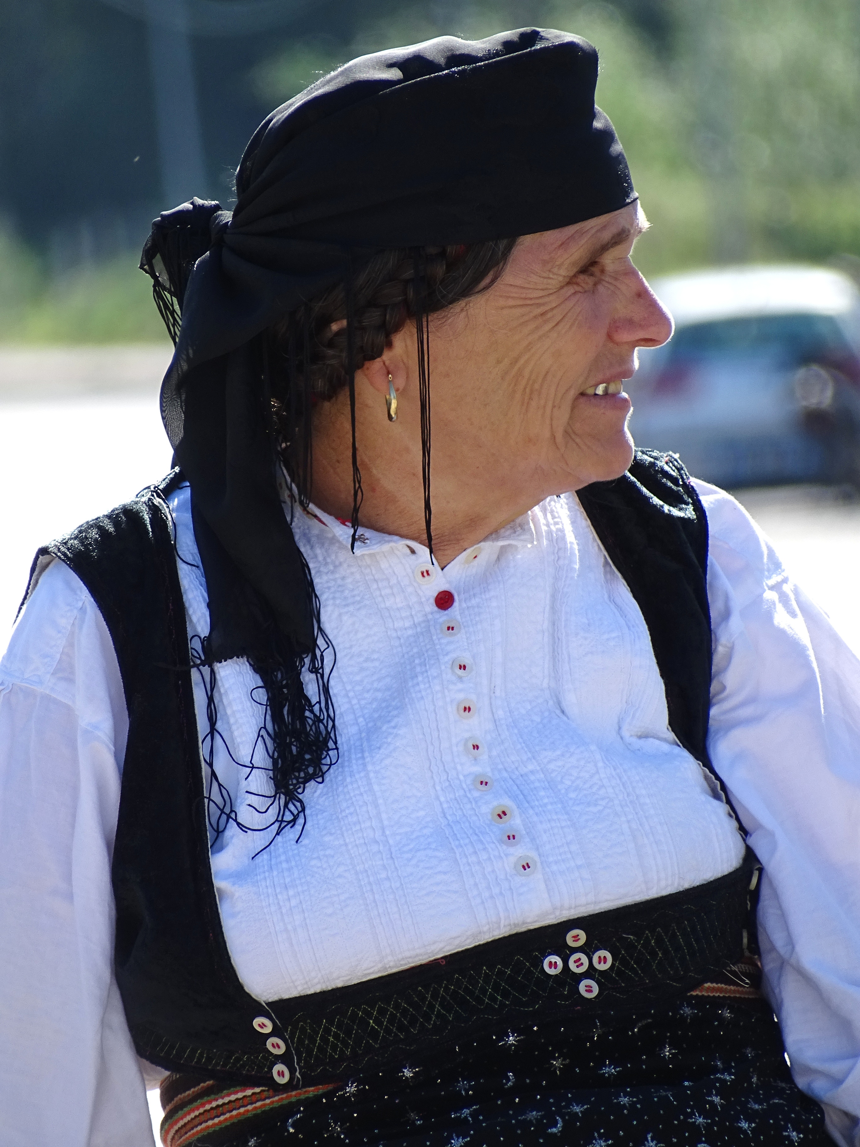 Photos by Adam Jones